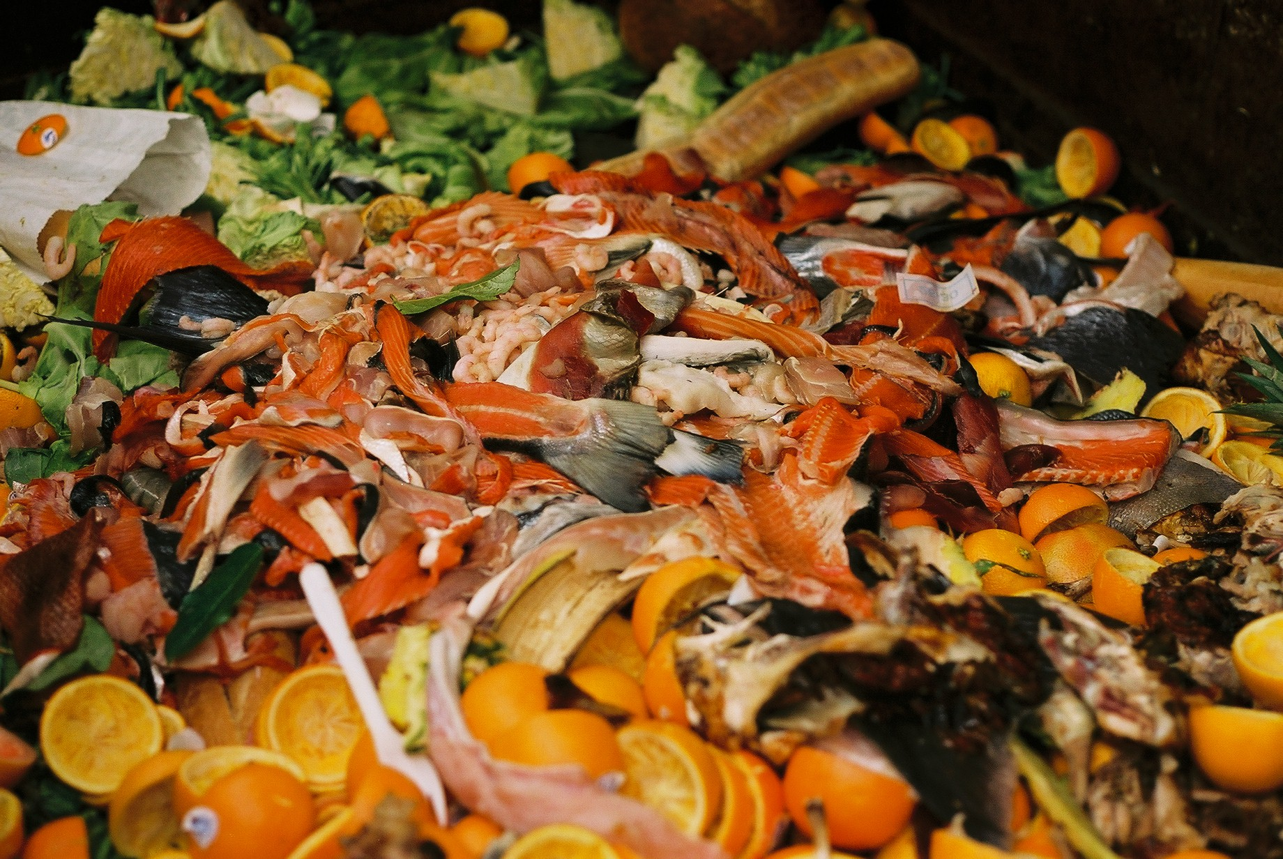 Food waste. Peering into a dumpster at the GI Market. I so wanted to pull those salmon spines out of there, take them home and make stock.